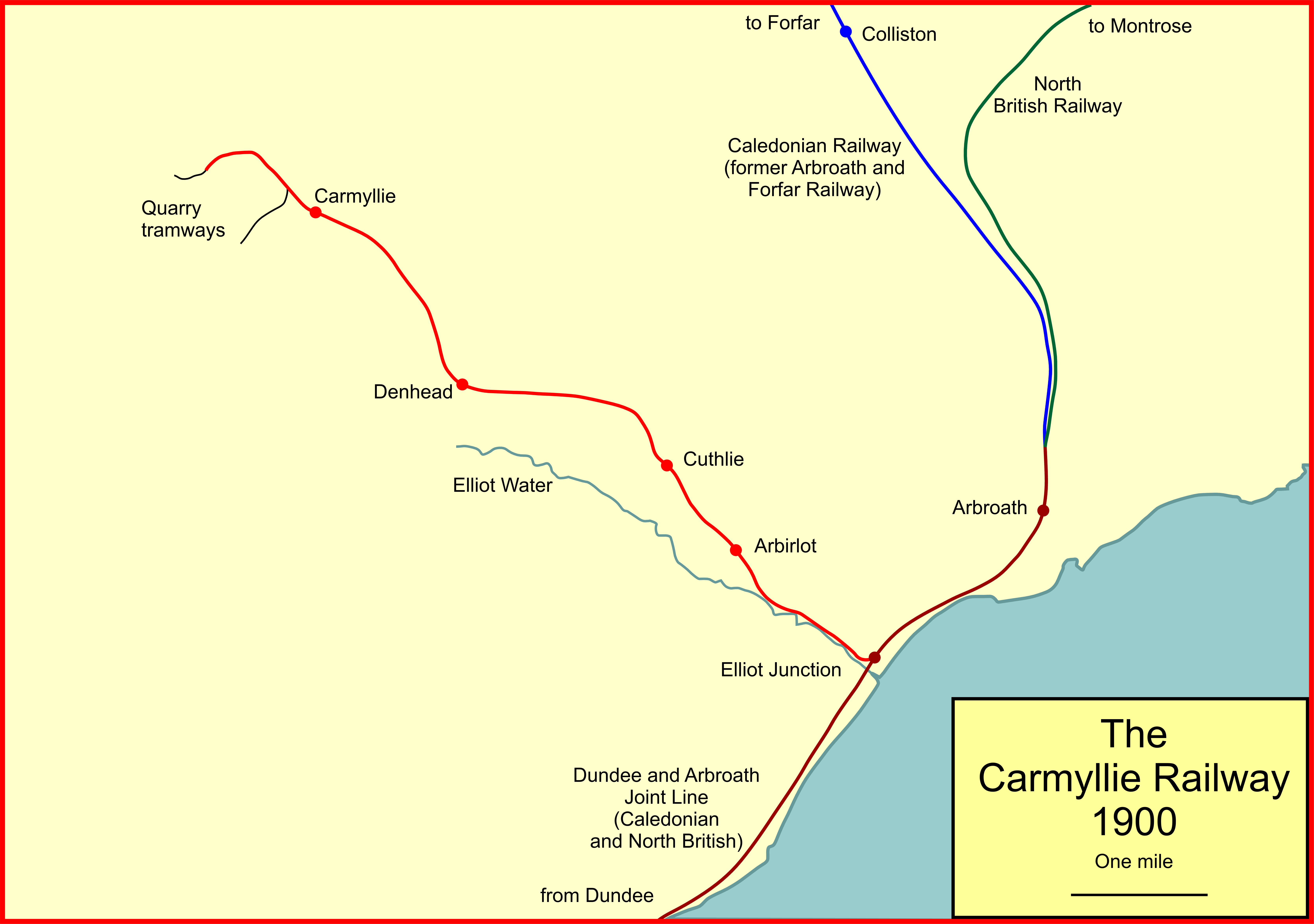 System map of the Carmyllie Railway, Scotland, after the provision of passenger stations